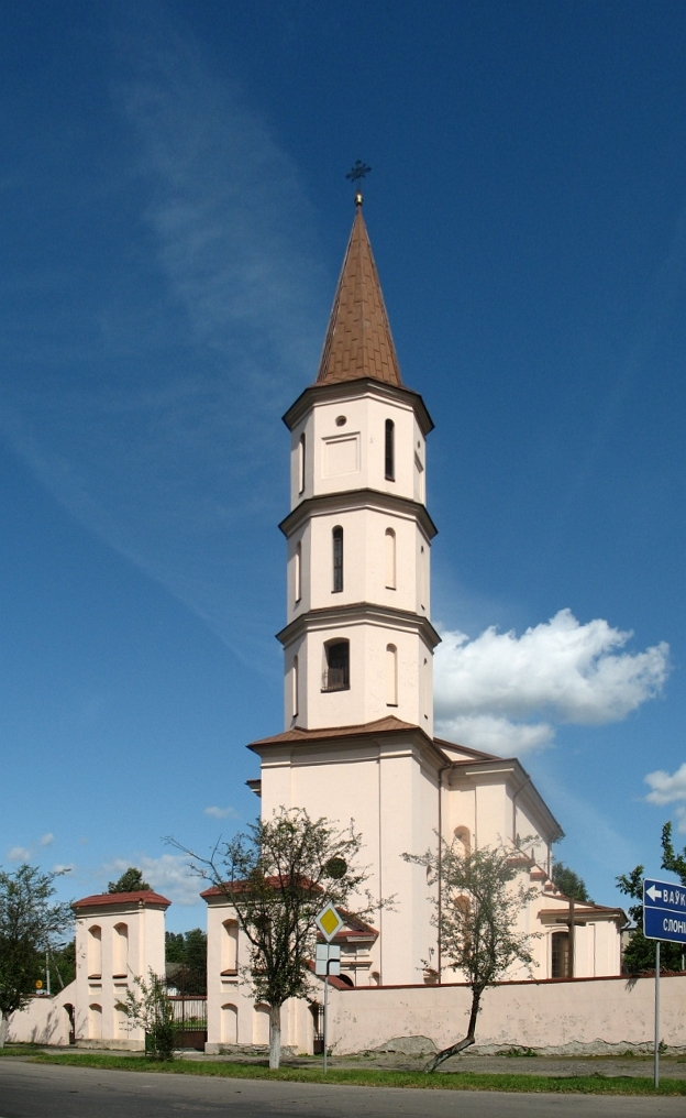 Church of Holy Trinity (Ruzhany), Belarus